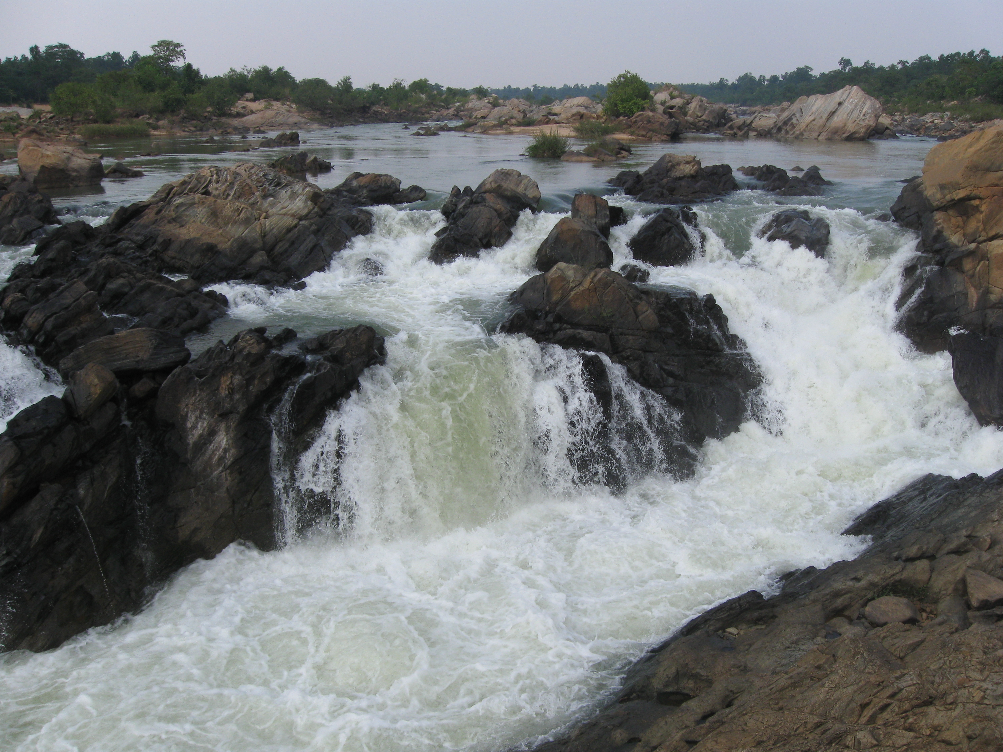 bhimkund one of the tourist place in odisha